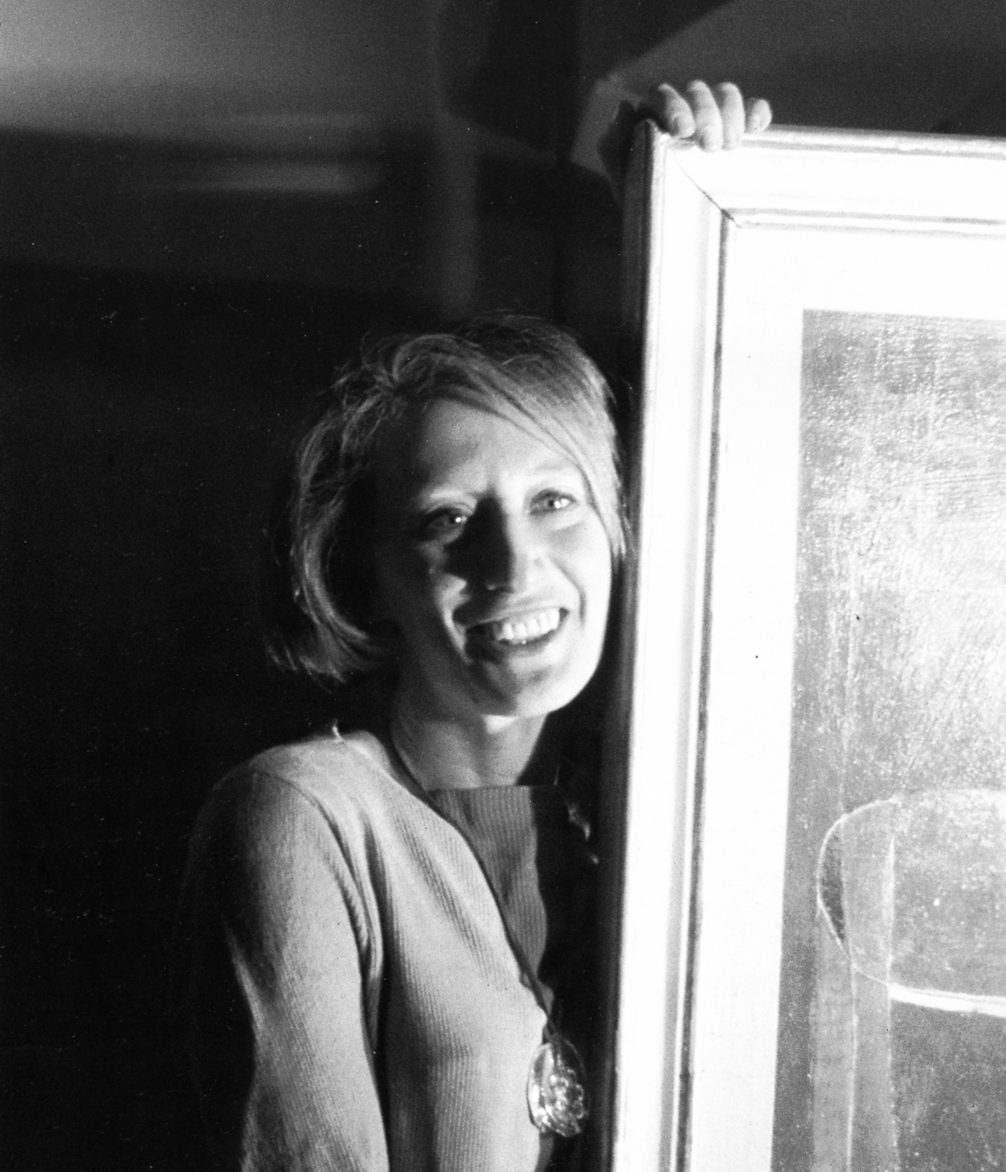 Miela Reina